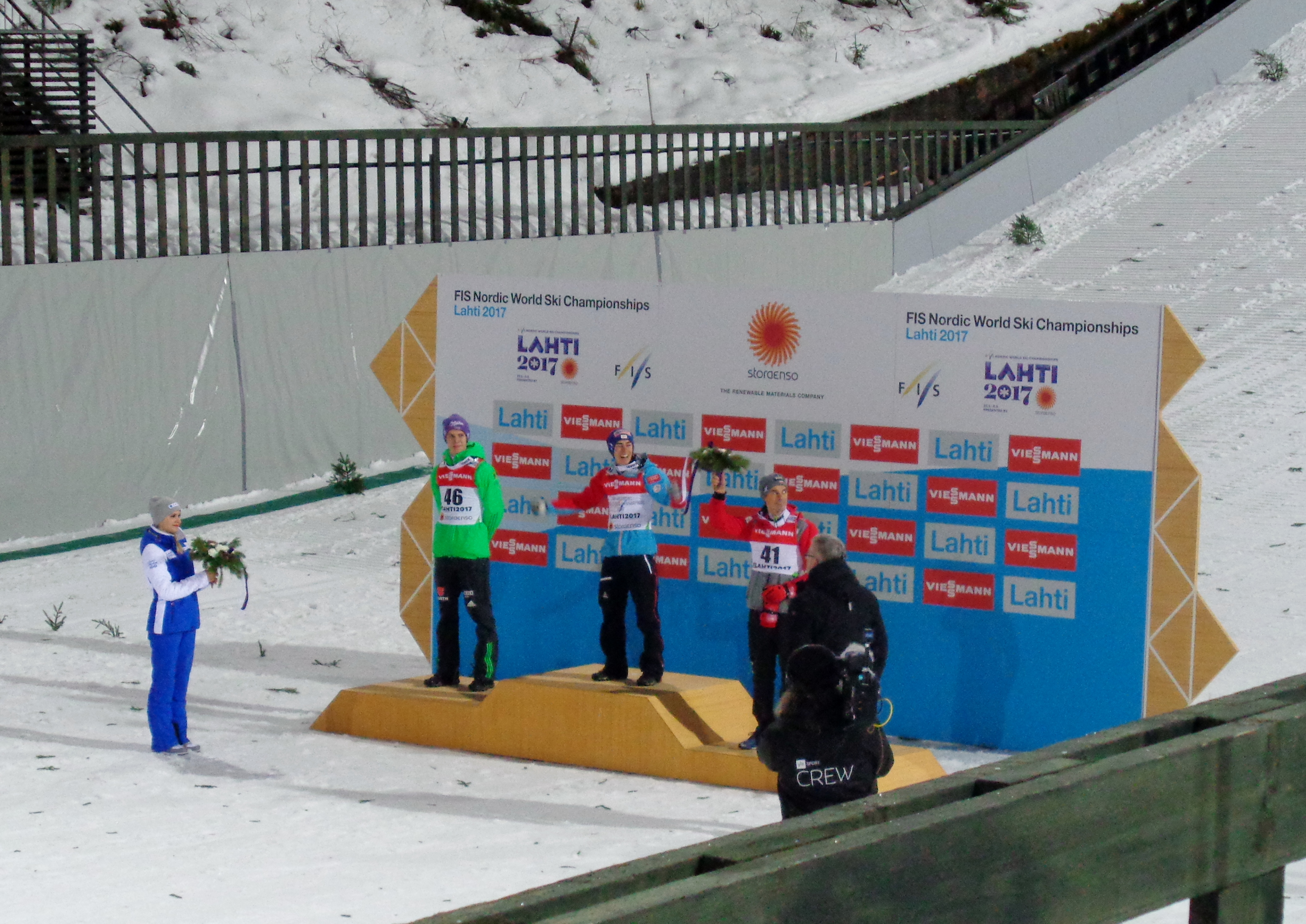 Flower ceremony after men's large hill competition at 2017 Nordic World Ski Championships.